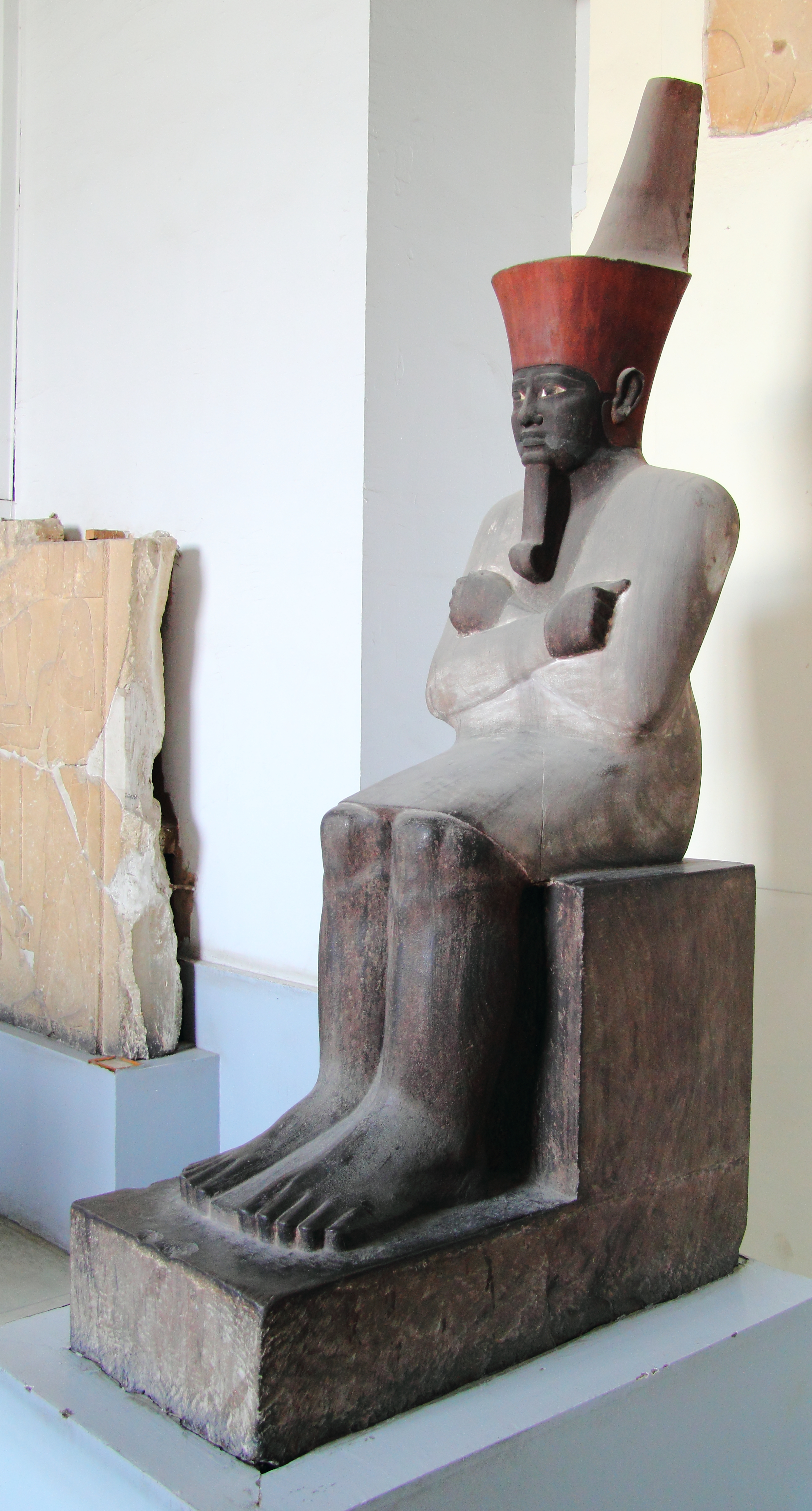 Egyptian Museum, Cairo: Ancient Egyptian statue of king Mentuhotep II, Middle Kingdom of Egypt